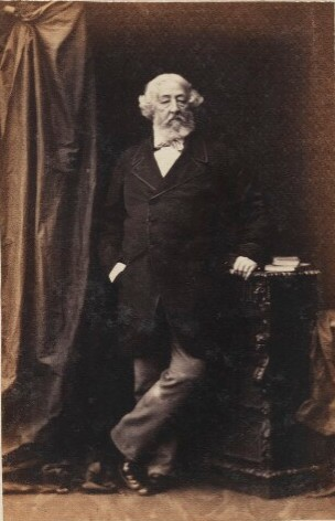 Portrait of Edward Wyndham Harrington Schenley (1799–1878)[1] was a British Army officer and politician.